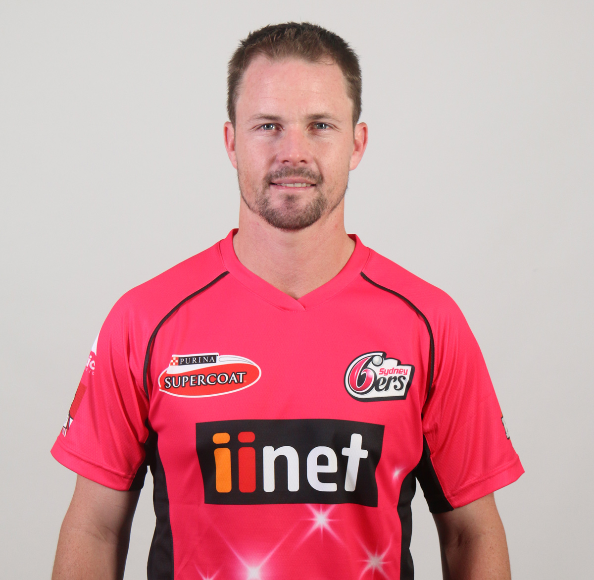 Colin Munro signing with the Sydney Sixers for the Big Bash League